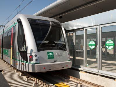 station